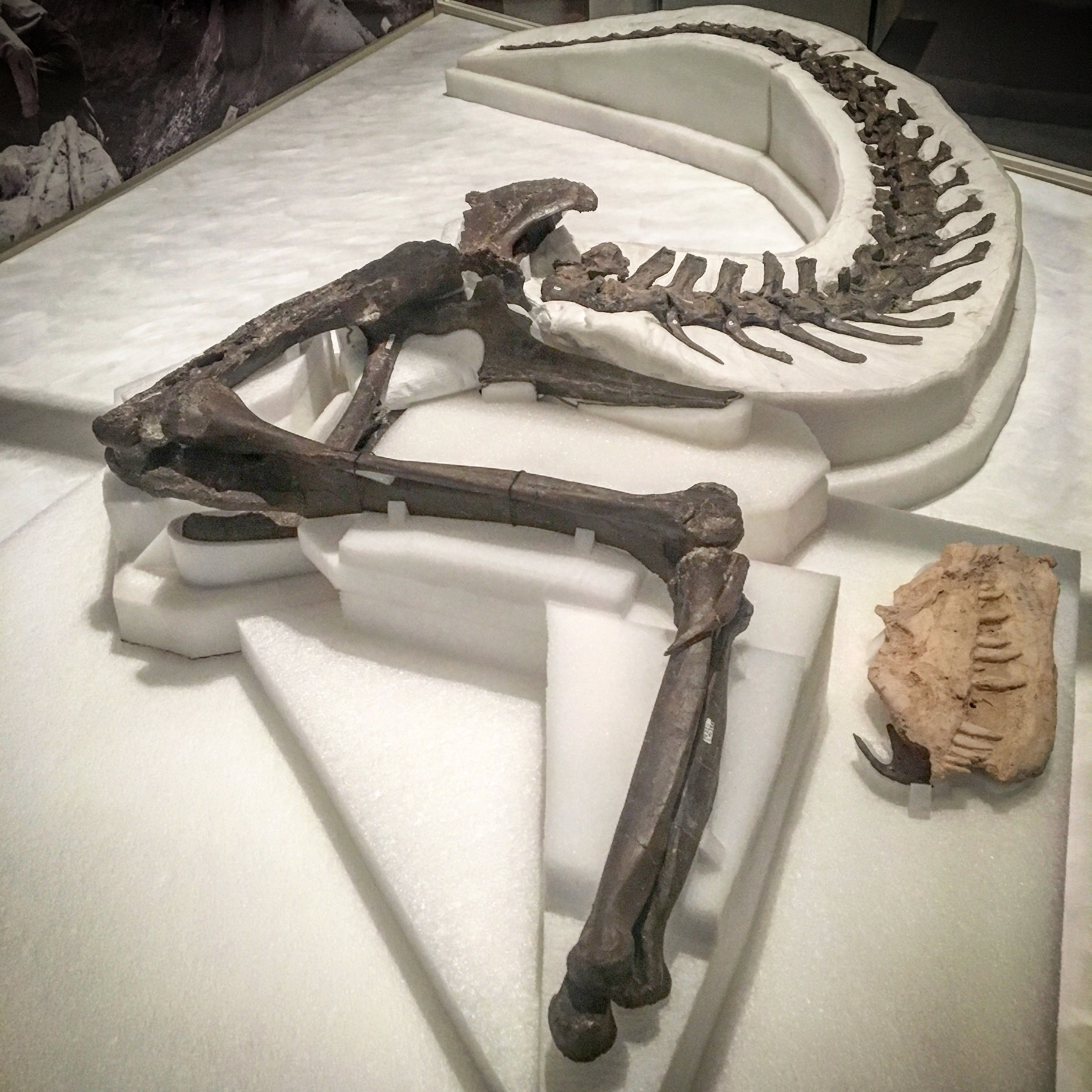 Gorgosaurus libratus "Elmer" at the Field Museum of Natural History, Chicago, Illinois. Discovered in 1922 in the Dinosaur Park Quarry of Alberta, Canada. Nicknamed after Field Museum paleontologist Elmer Riggs. Pictured is the 80% complete left leg, complete hip bone, and nearly complete 8-foot long tail. I piece of the snout is also displayed.